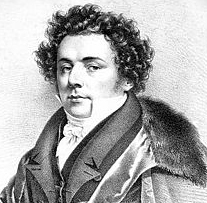 BassLuigi Lablache